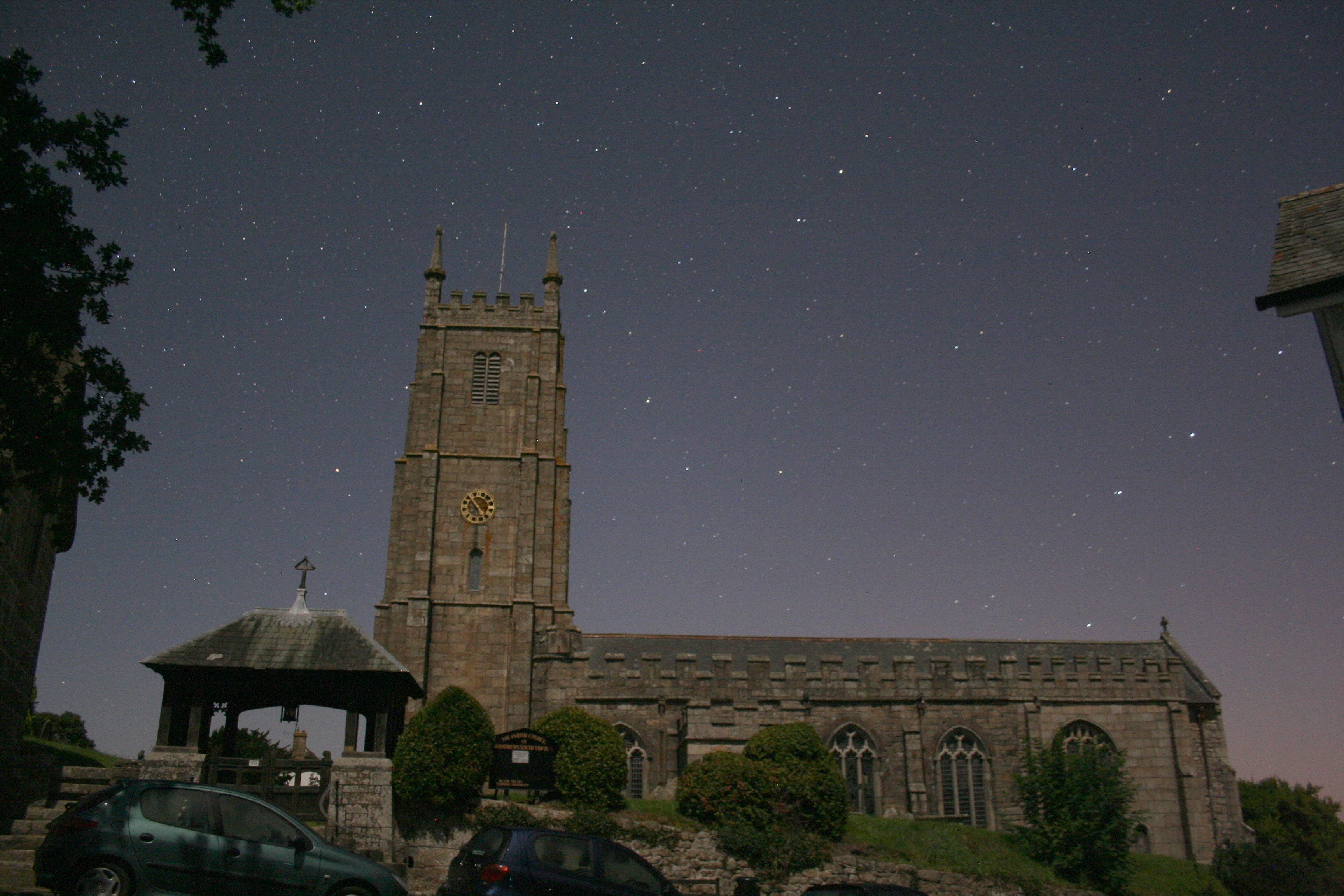 St Andrews church in South Tawton